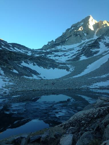 photo of bear creek spire from Dade Lake